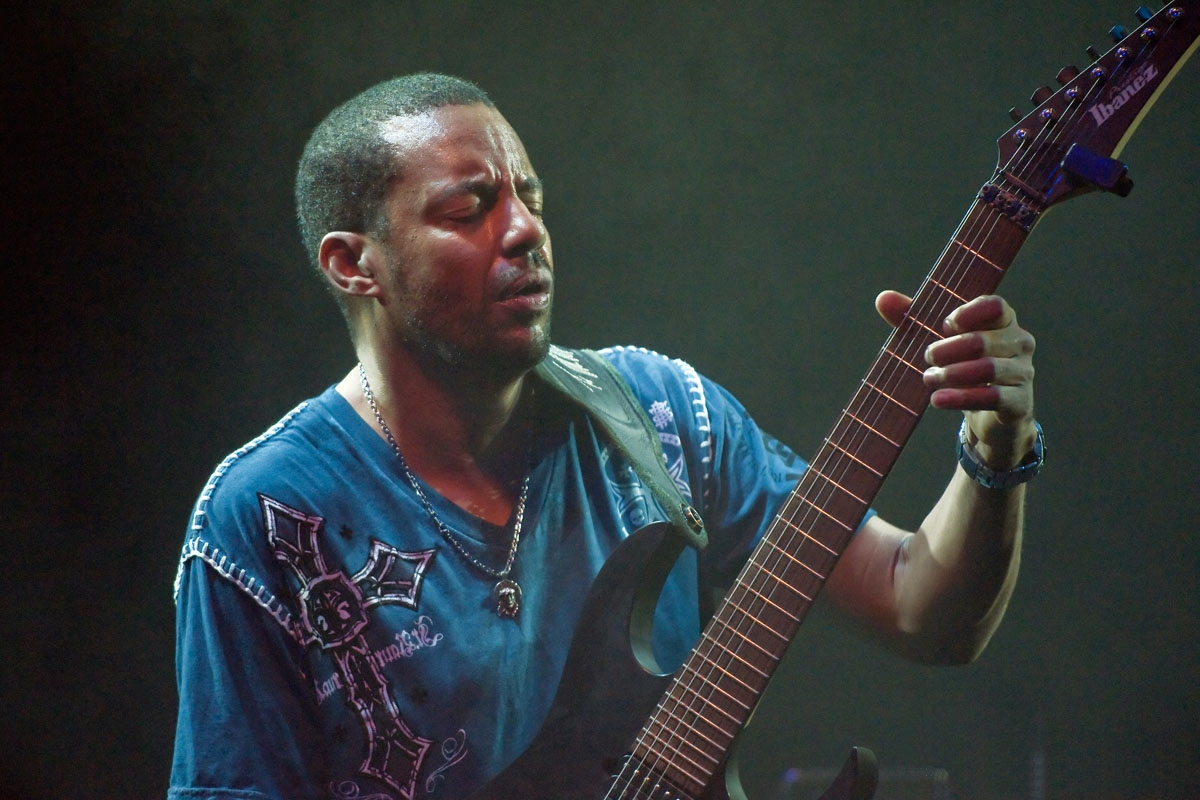 Tony MacAlpine playing with Mike Portnoy, Billy Sheehan and Derek Sherinian at De Boerderij, Zoetermeer, The Netherlands (Oct. 21., 2012)